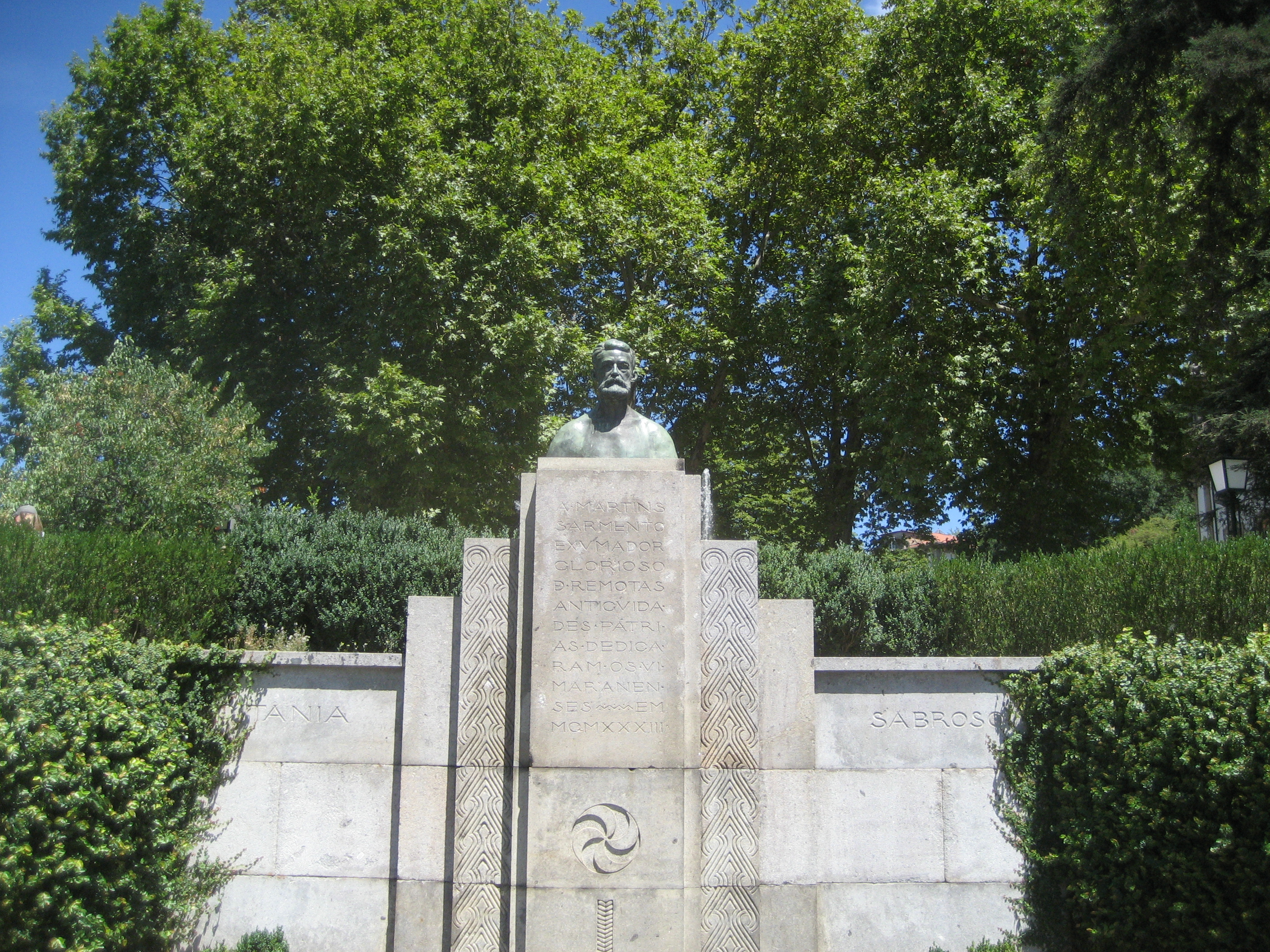 Monument for Martins Sarmento, Guimarães (Portugal)